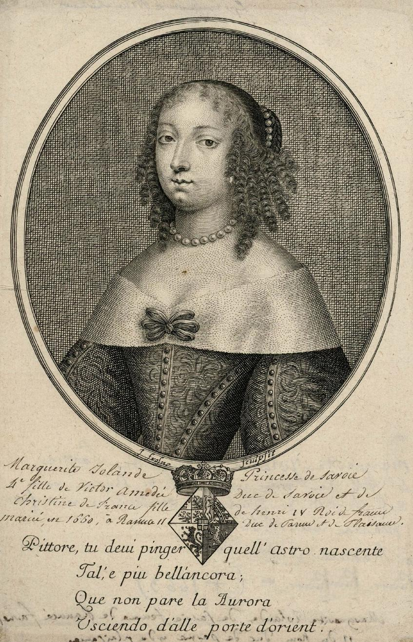 Engraving of Marguerite Yolande de Savoie, later Duchess of Parma unknown artist